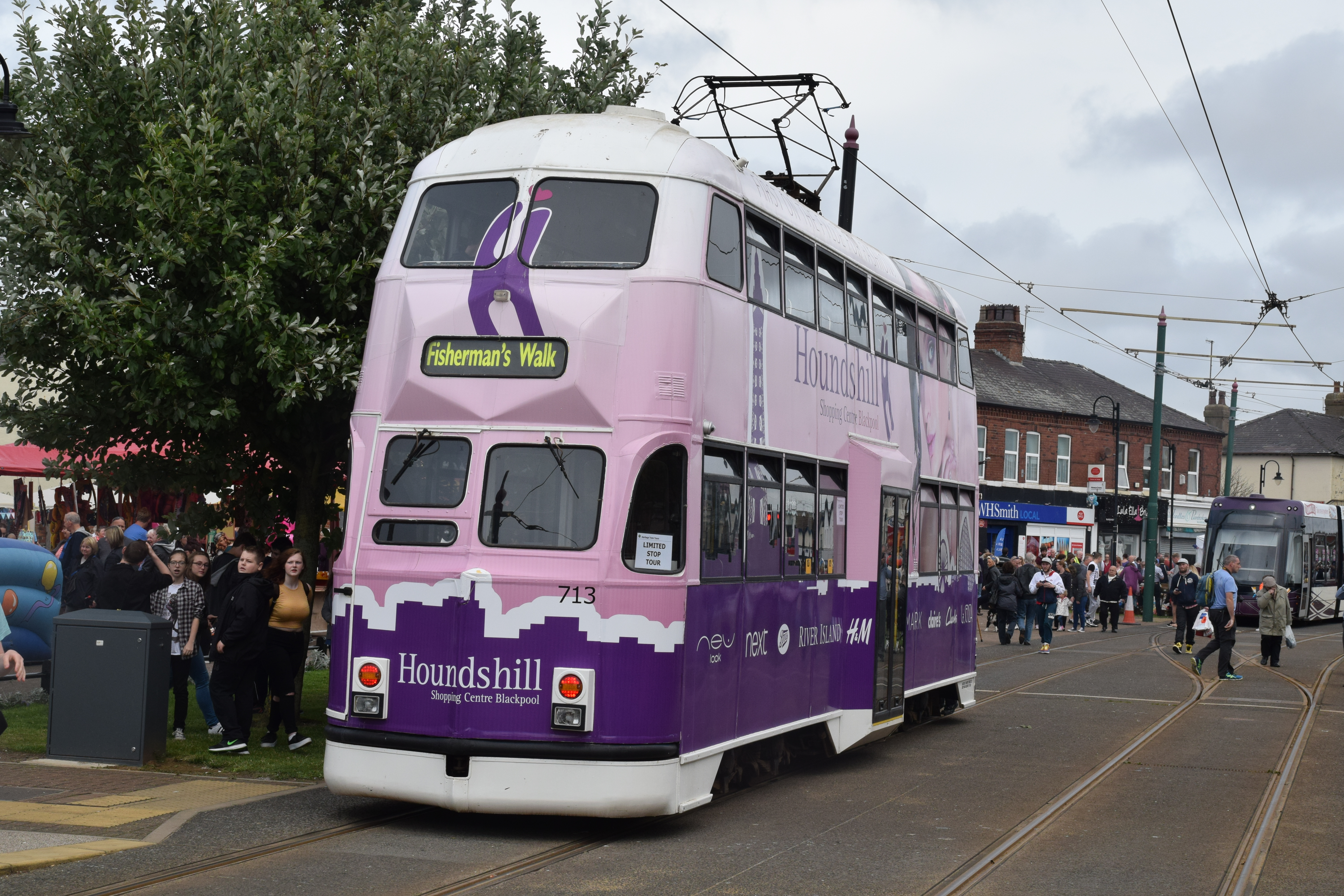 Fleetwood, Fishermans Walk. Modified Balloon Car No.713. Blackpool Transport, No.713.